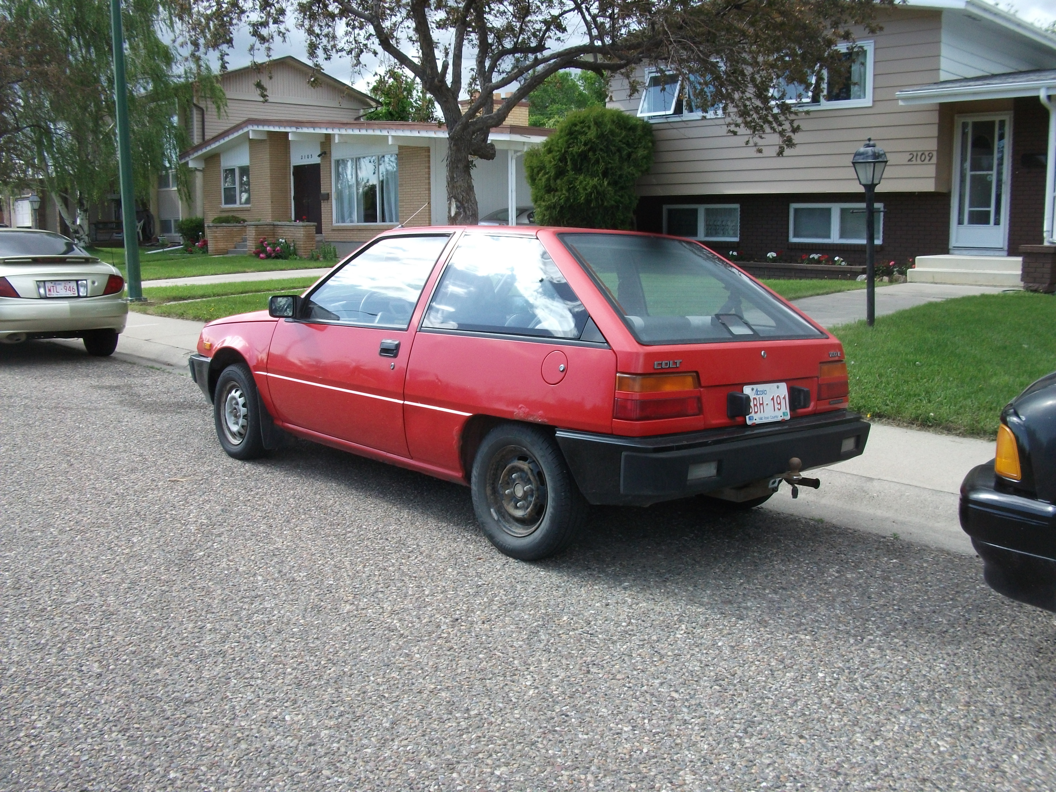 Colt 100E hatchback